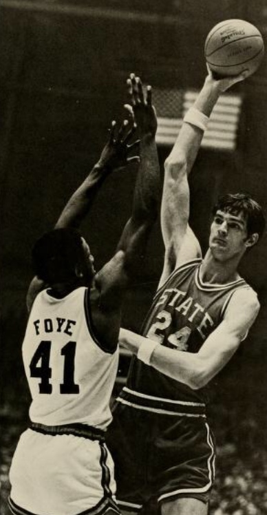 North Carolina State basketball player Tommy Burleson from the 1974 “Agromeck” yearbook.